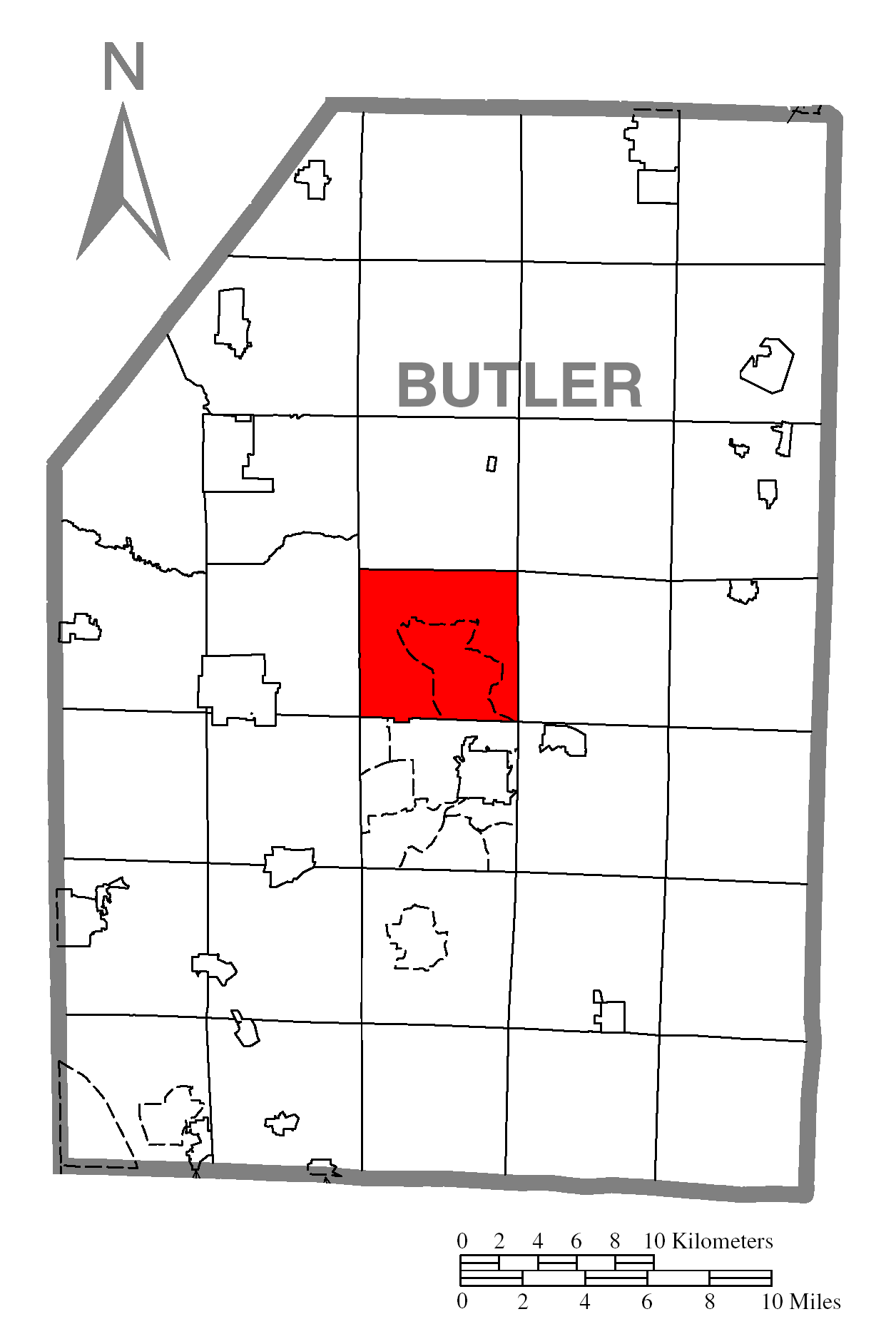 A map of Butler County showing Center Township, Pennsylvania (alternate) highlighted on the map.